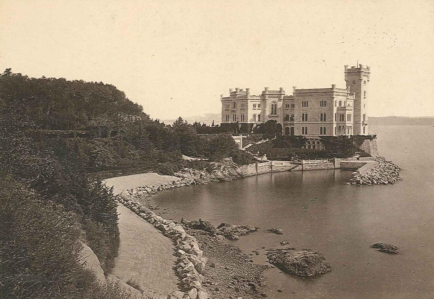 Miramare Castle, general view